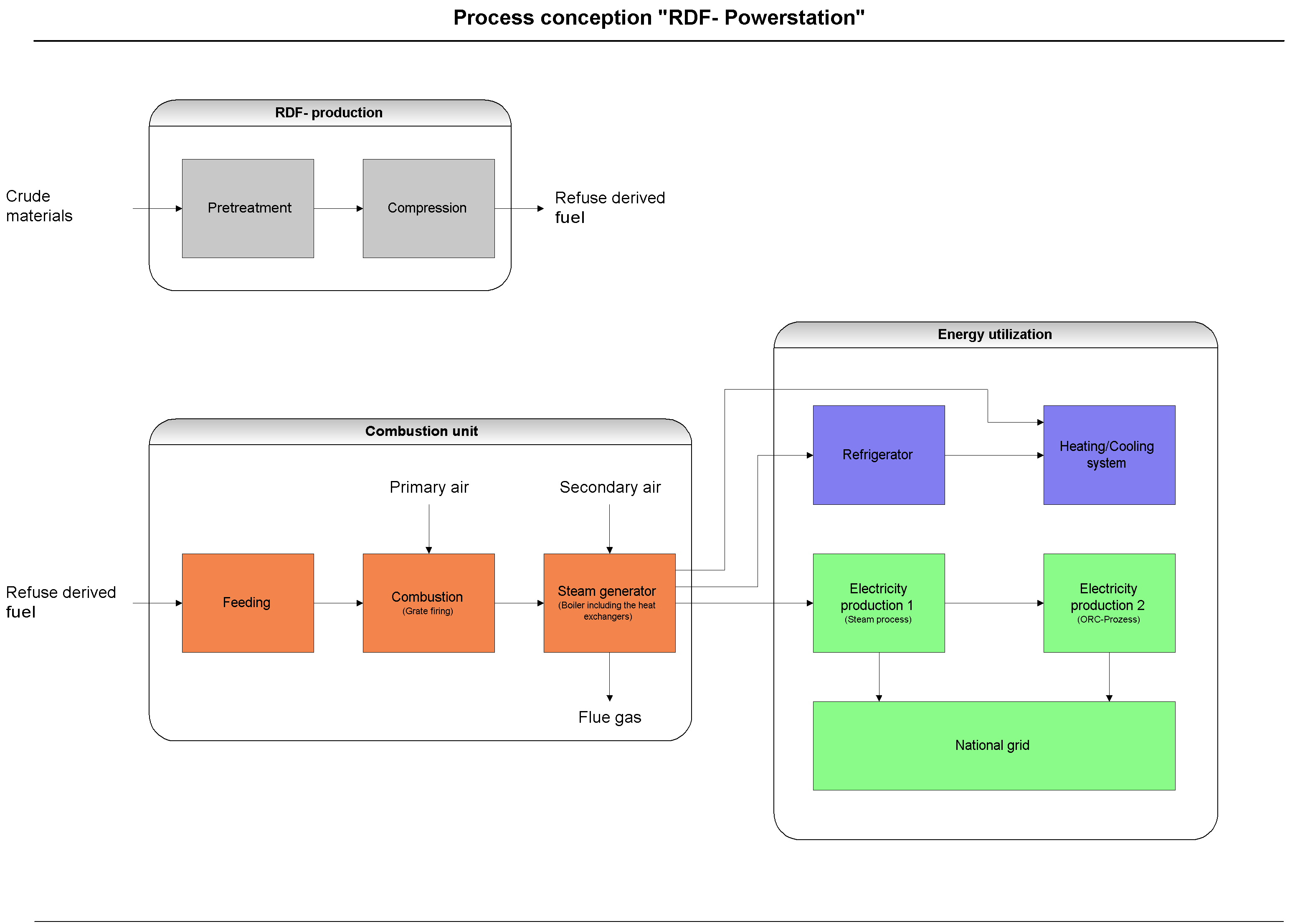 Processdiagram of the RDF-Powerstation